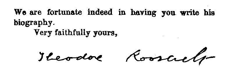 End of Preface of "Le Chevalier de l’air. Vie héroïque de Guynemer'" by President Theodore Roosevelt